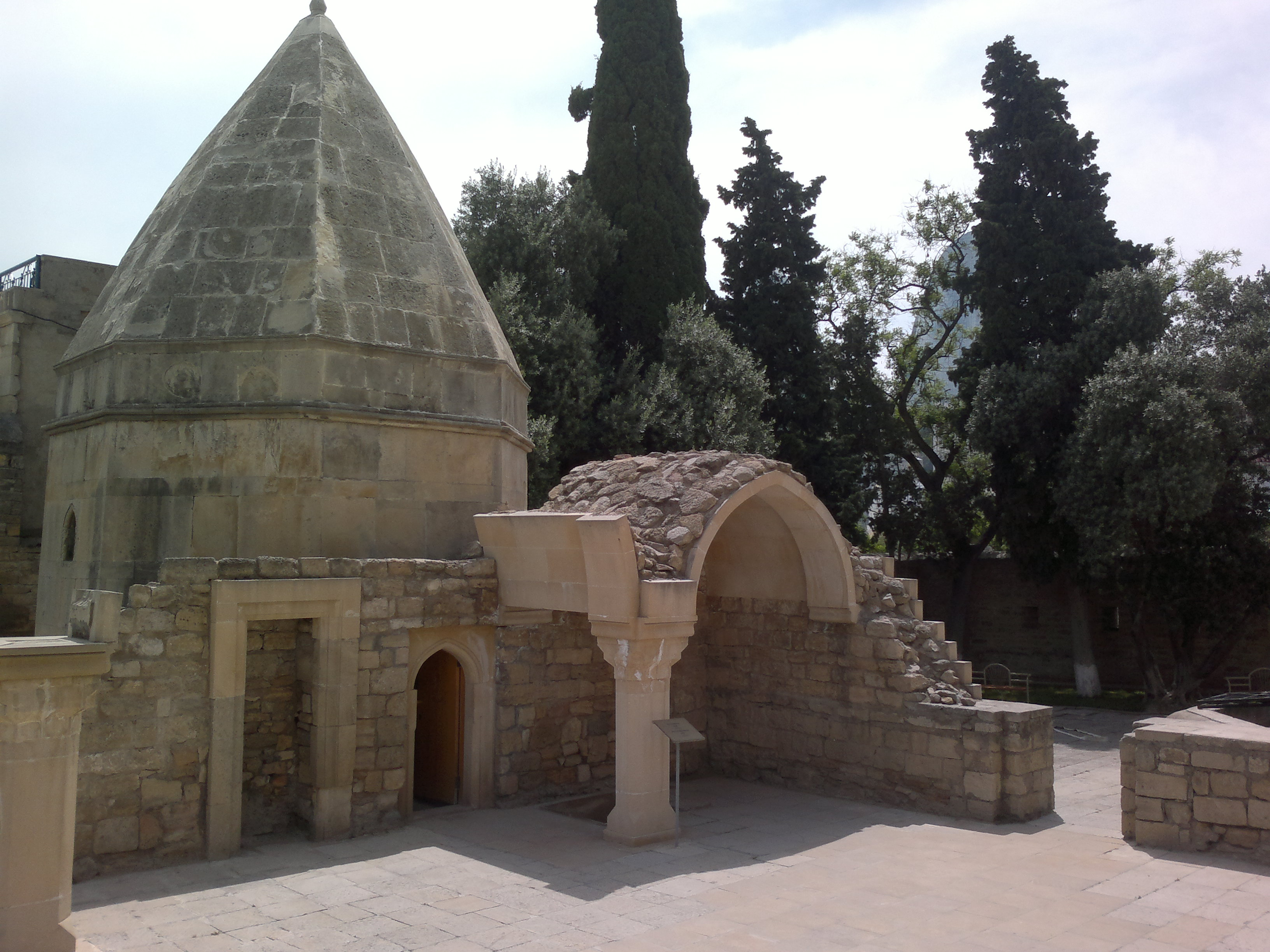 Dervish Mausoleum. Palace pf the Shirvanshahs. Baku, Azerbaijan.